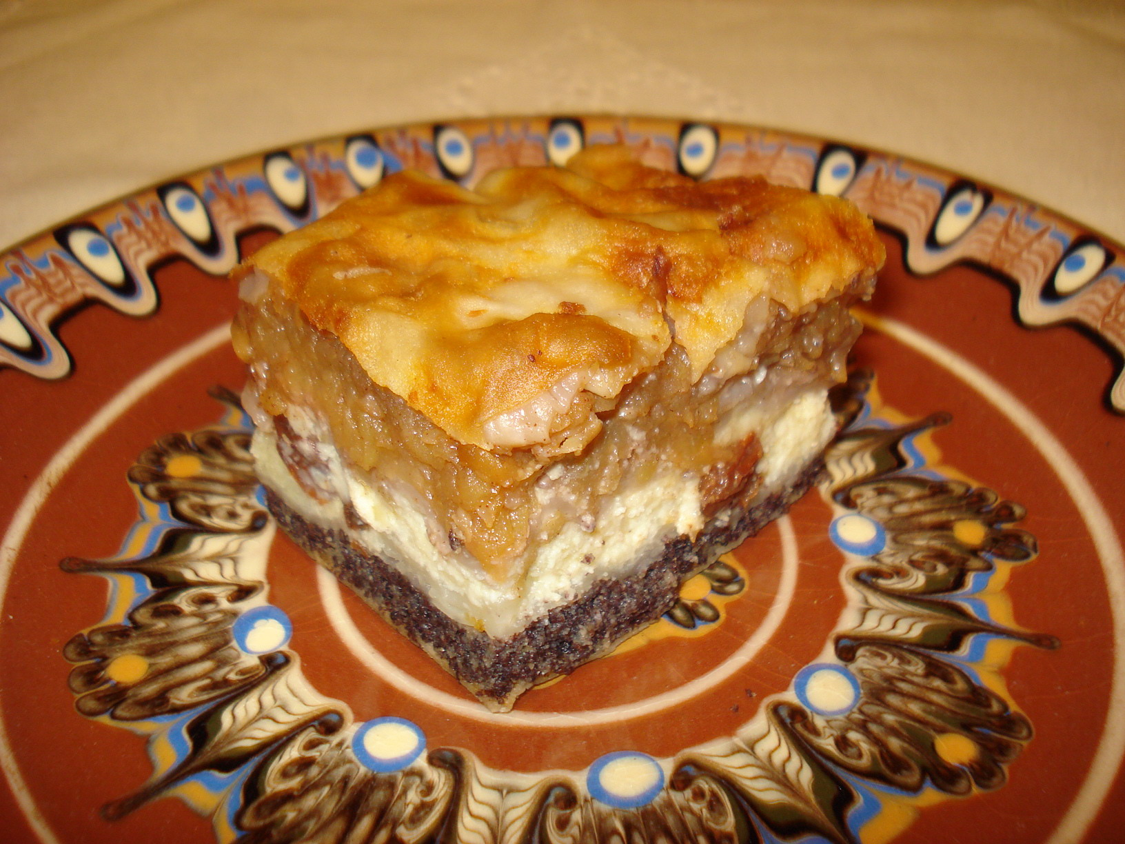 Međimurska gibanica - fruit, poppy and fresh cheese layered cake from Medjimurje county, northern Croatia - served